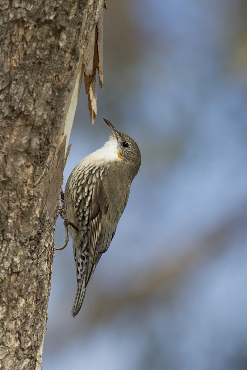 Strangways Vic.